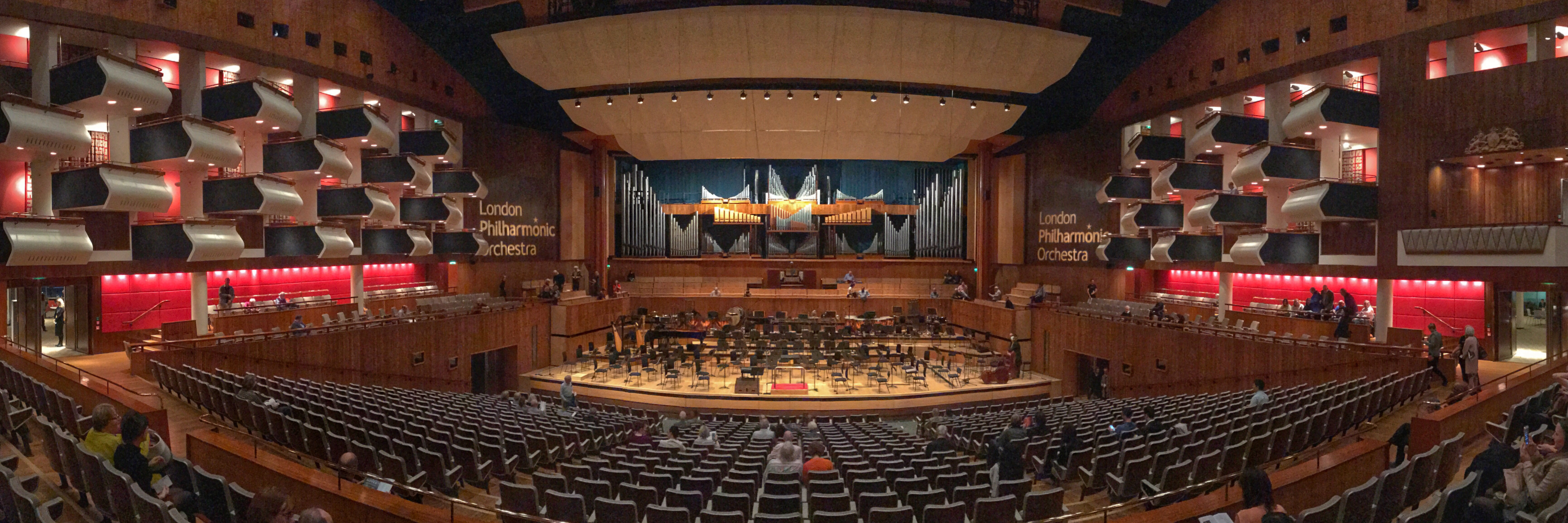 Panorama of the Royal Festival Hall, London in 2017